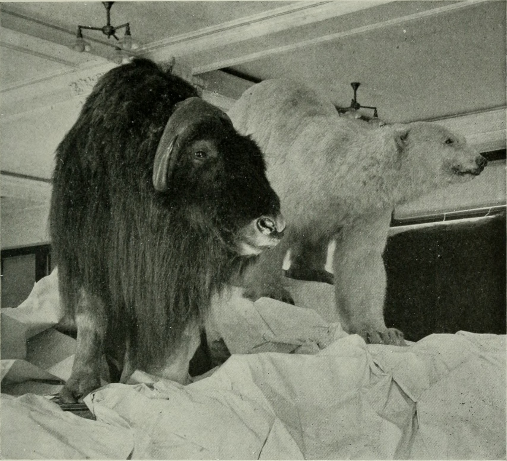 Title: The American Museum journal Year: c1900-(1918) (c190s) Authors: American Museum of Natural History Subjects: Natural history Publisher: New York : American Museum of Natural History Text Appearing Before Image: PEARY ARCTIC CLUB EXHIBIT 207 Text Appearing After Image: MUSK OX AND POLAR BEAR. Peary Aictic Club Exhibit. Through these 400 miles no living thing is to he found, for musk oxen and caribou range no farther north than Cape ^lorris K. Jesup, the northernmost land, while seal, walrus and narwhal are foimd only along the waters that margin the land. The rest of the trip as traced shows a veritable "dash to the Pole." On March 11, S4° north was passefl, and a week later, S5° north was reached, 300 miles from the Pole. By March 27 the expedition passed 87° north, and April 2, 8cS° north, only 120 miles from the Pole and farther north than any human being had ever l)efore penetrated. Only four days later camp was made at the journey's end, and the American flag was flying at 90° north. There is scarcely anything in the Peary Arctic Club's exhibit outside of this map that attracts more attention than a sledge on the west side